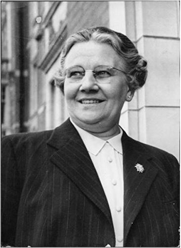 File shot of Florence Hancock